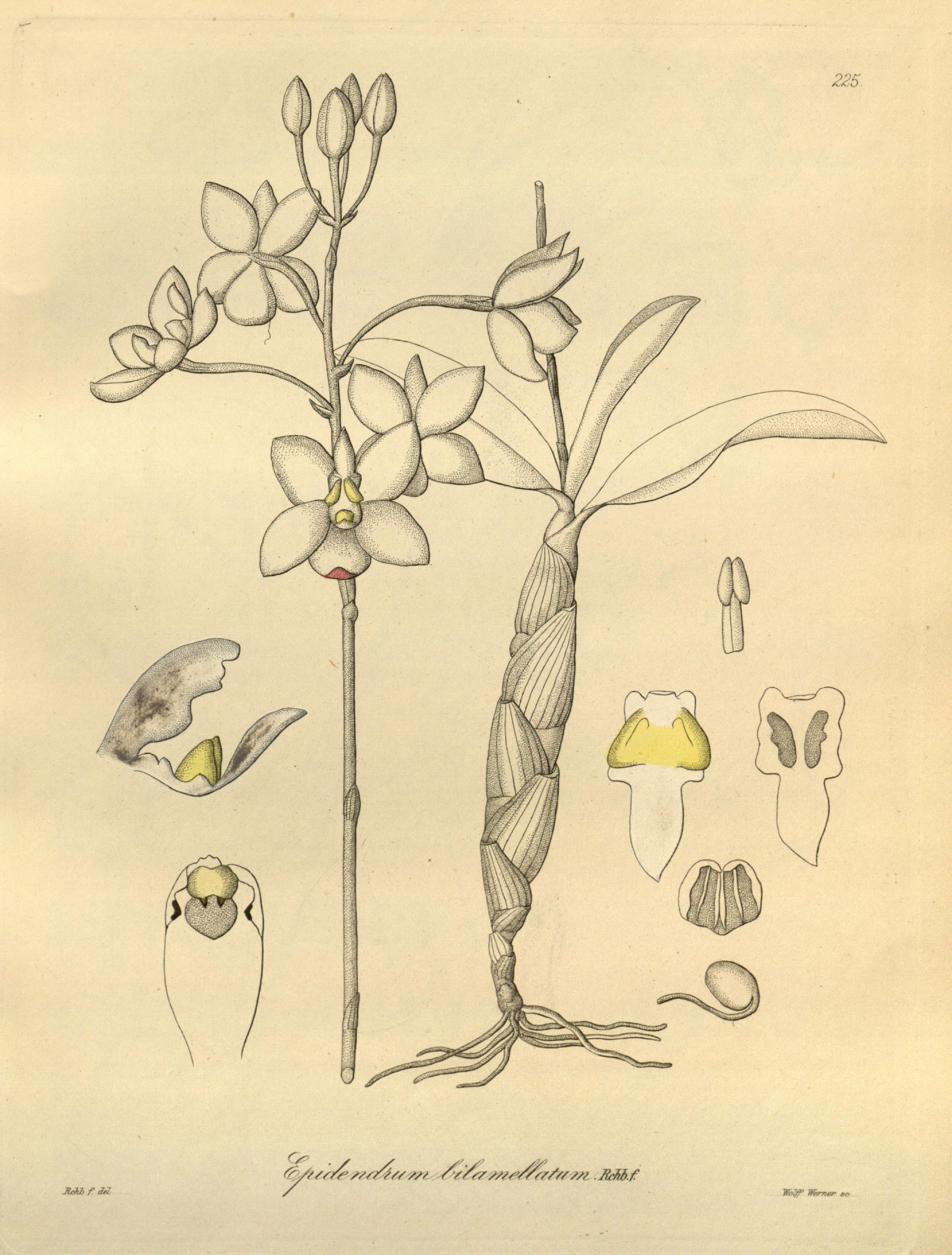 Illustration of Caularthron bilamellatum (as syn. Epidendrum bilamellatum)